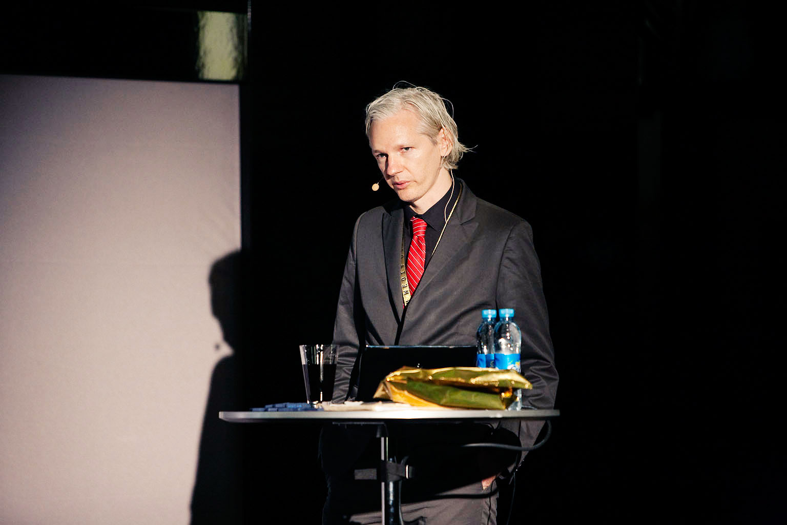 Julian Assange at New Media Days 09 in Copenhagen.